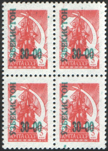 Stamp of Uzbekistan 1993. Overprints. Author - Post of Uzbekistan.